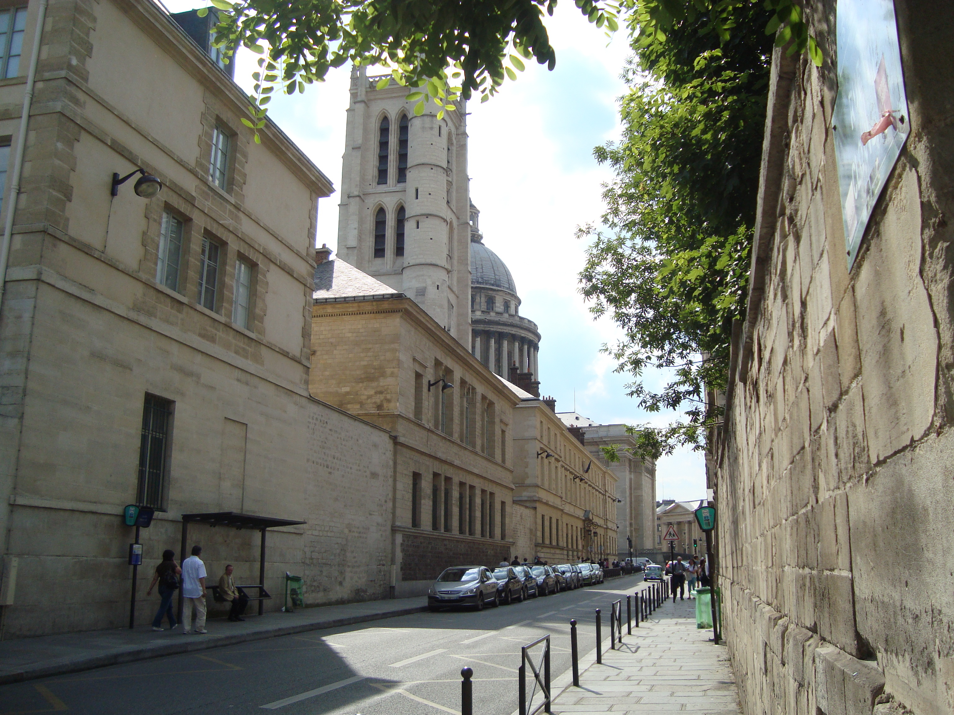 View of the rue Clovis in Paris. On the left the tour Clovis of the lycée Henri IV and in the back-left the Panthéon de Paris.